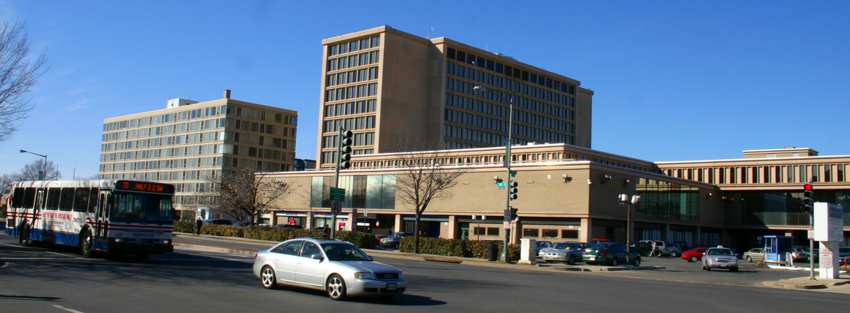 Marina View Towers desgined by I. M. Pei at Waterside (West) . View of 1100 6th Street, SW,; EPA in the center and Waterfront Mall (now demolished) to the right. Standing at 4th and M Streets, SW, WDC . Saturday afternoon, 24 February 2007 . Elvert Xavier Barnes Photography